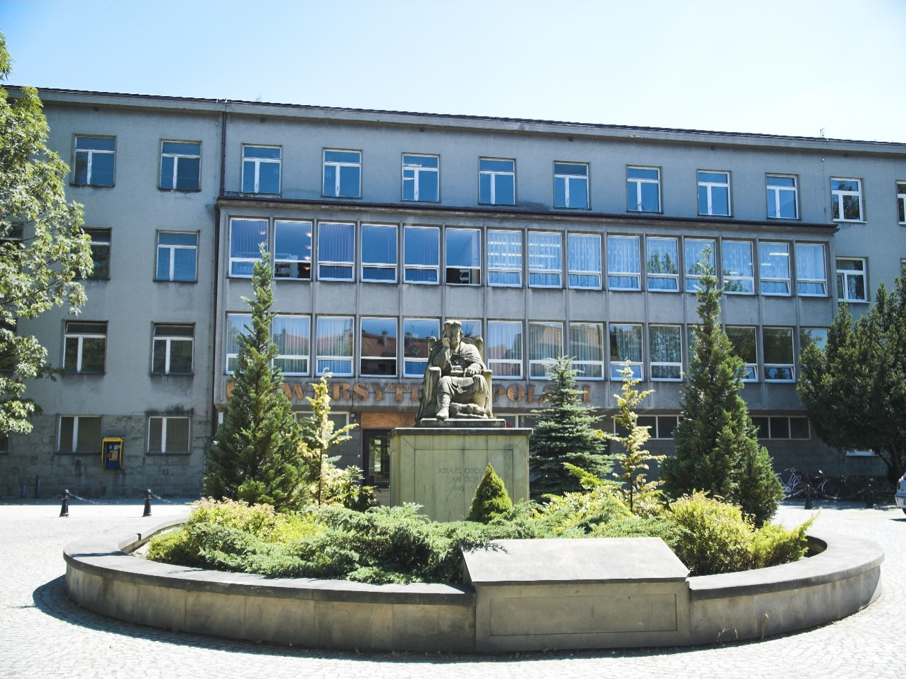 The building of Opole University on Oleska-street and the monument of duke John II the Good, in Opole, Poland